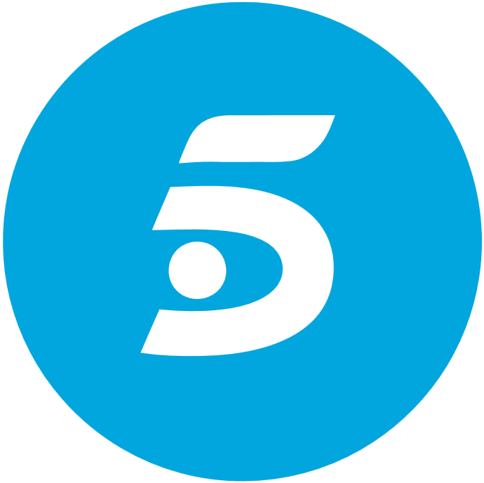 Telecino Network Logo